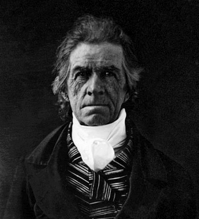 Daguerreotype of John Hartwell Cocke (1780–1866) of Bremo in the 1850s.[1]